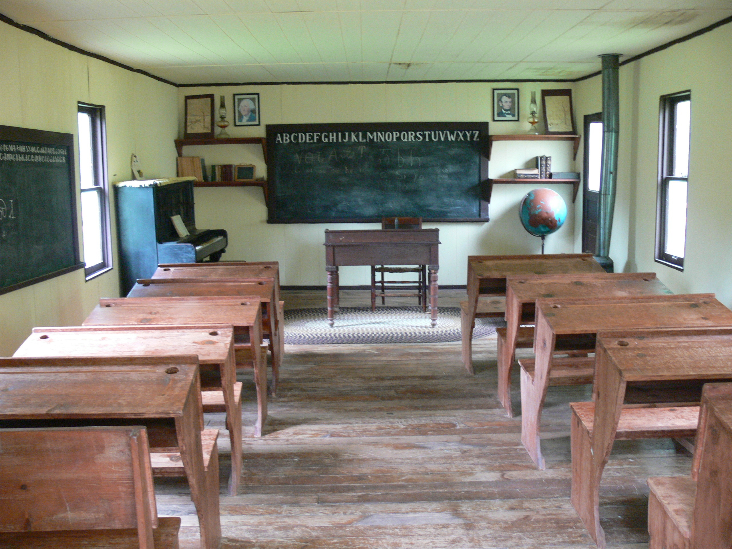 Cherokee Heritage Center ( Tahlequah / Oklahoma ). Adams Corner village: Village school - Class room.